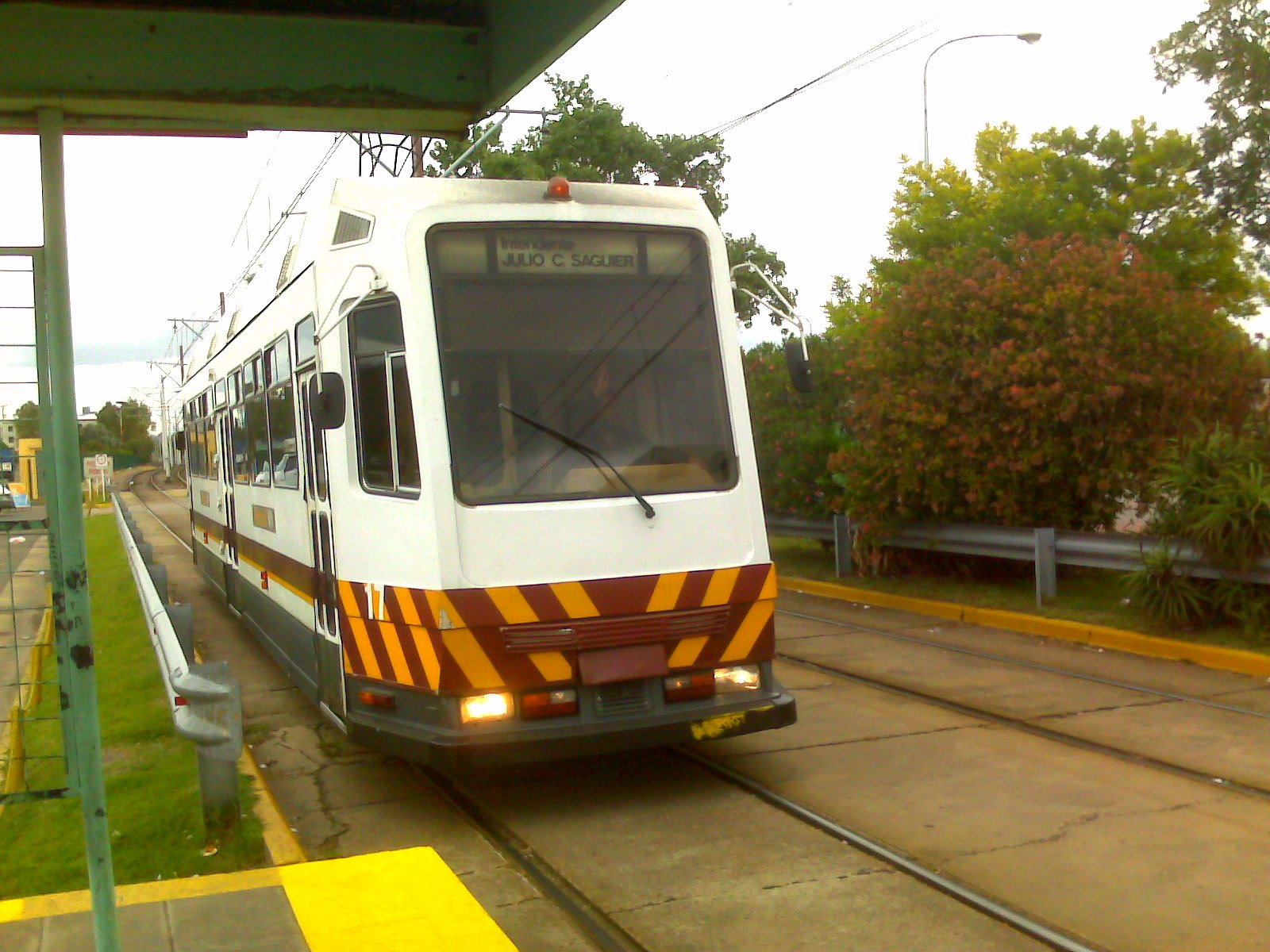 Buenos Aires tram